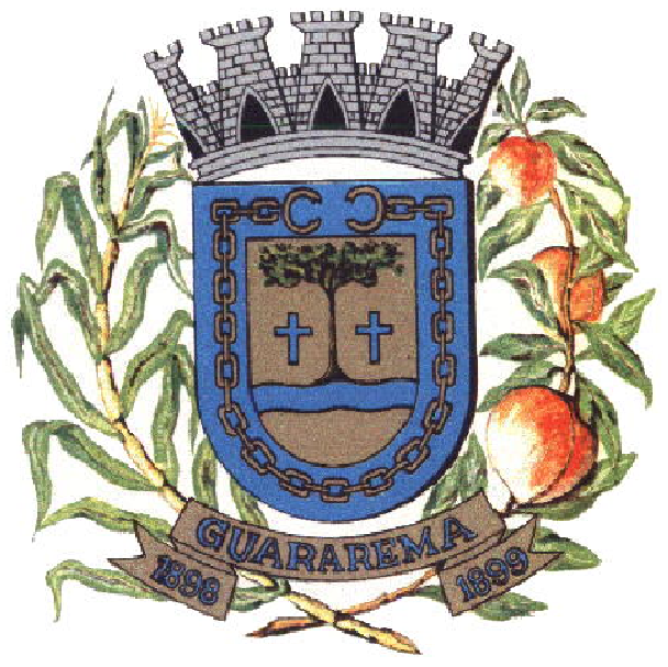 Coat of Arms of the city of Auriflama, São Paulo state, Brazil. Based on the city oficial website. Emerson This work is in the public domain in Brazil for one of the following reasons: It is a work published or commissioned by a Brazilian government (federal, state, or municipal) prior to 1983.(Law 3071/1916, art. 662; Law 5988/1973, art. 46; Law 9610/1998, art. 115) It is the text of a treaty, convention, law, decree, regulation, judicial decision, or other official enactment.(Law 9610/1998, art. 8) )